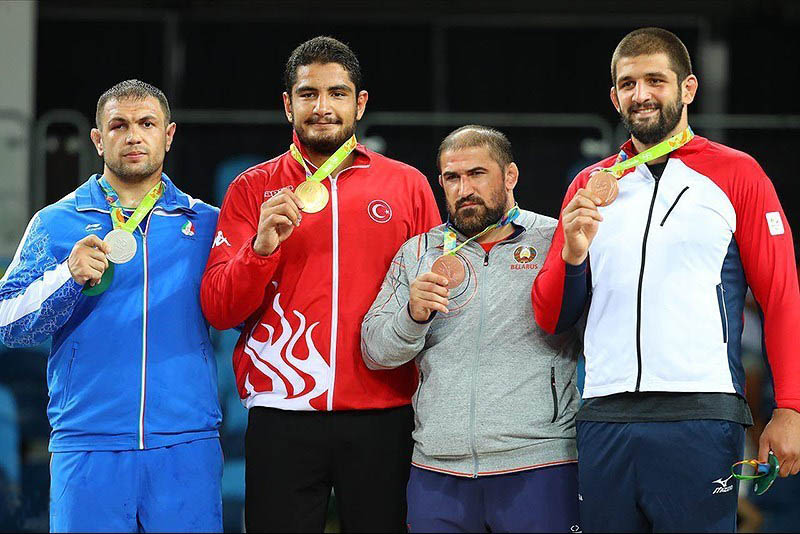 2016 Summer Olympics, Men's Freestyle Wrestling 125 kg Podium